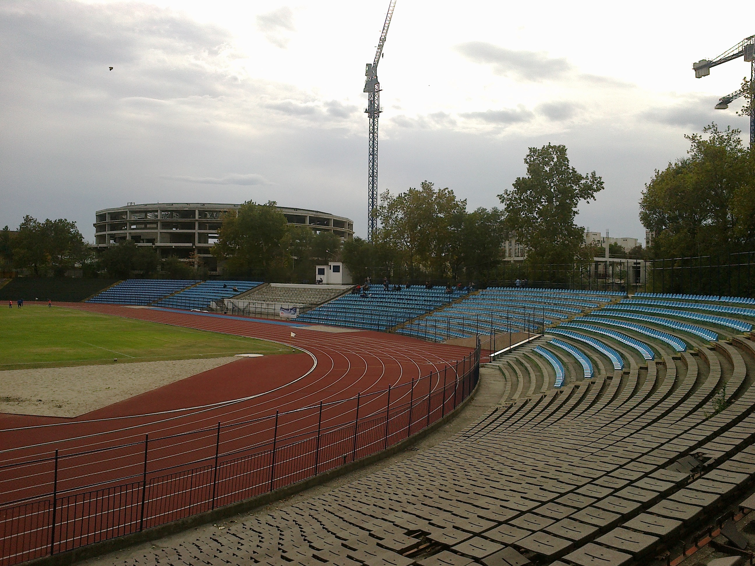 Gradski Stadium